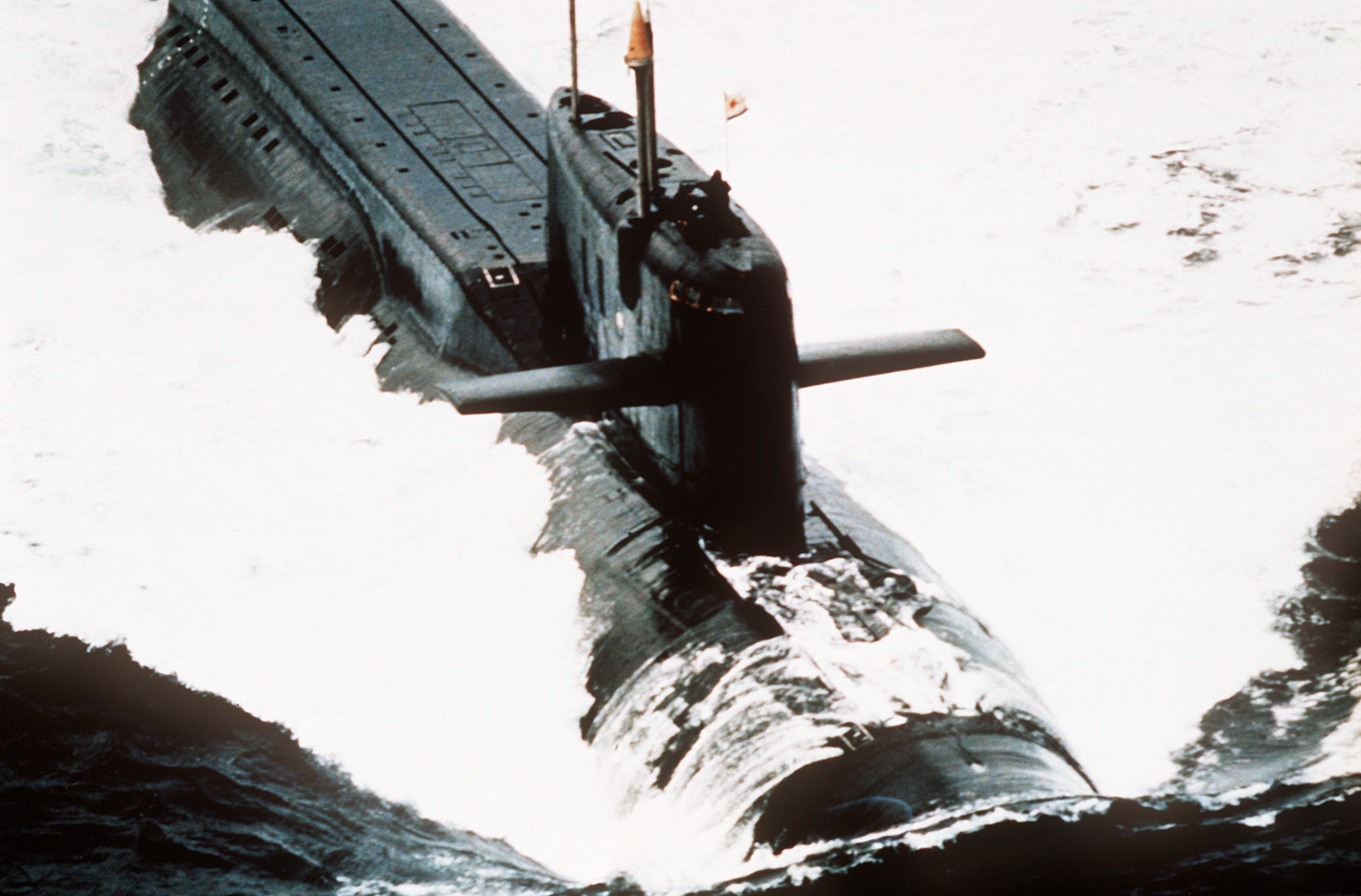 A close-up view of a Yankee Notch Class submarine underway. This is a conversion of a Yankee Class Soviet ballistic missile submarine into a strategic cruise missile platform.